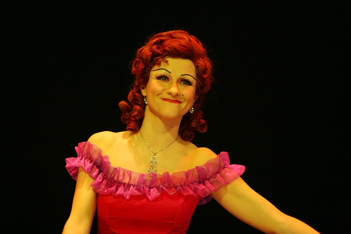 Barbara Melzer as Carlotta Guidicelli, "The Phantom of the Opera", Roma Musical Theatre in Warsaw, 2 October 2008.